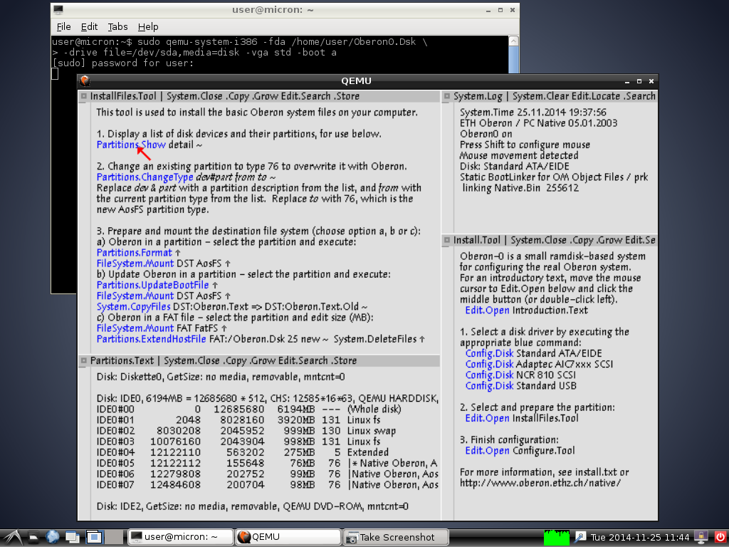 Screenshot of the Oberon0 installer running under QEMU in Debian Wheezy.